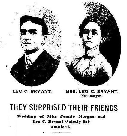 Jennie "Jane" Morgan and Leo Bryant wedding photograph from the The Anaconda Standard (Anaconda, Montana)February 19, 1901